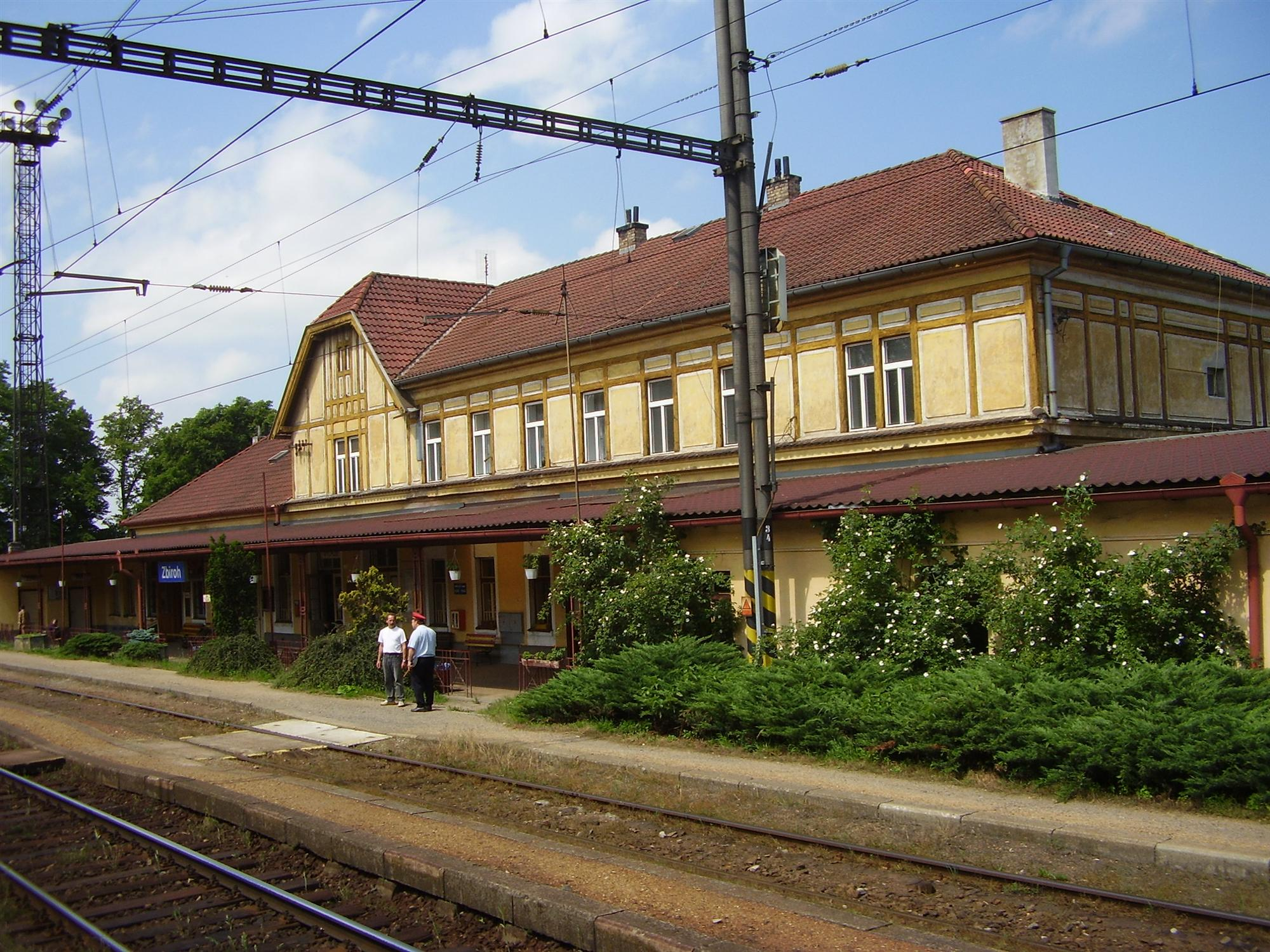 Train station Zbiroh, Rokycany District